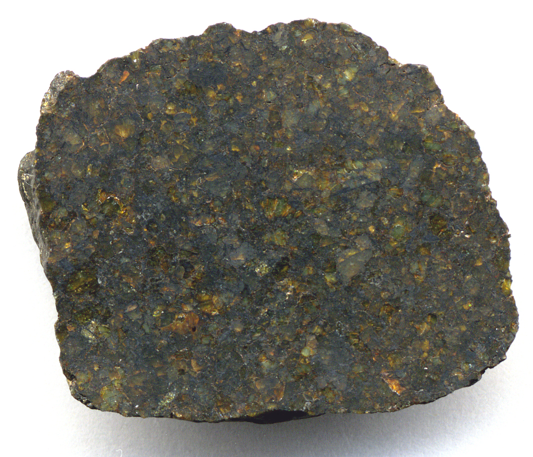 NWA 4231 meteorite fragment, 2.9 cm across, cut & polished surface. Classified as ureilite (olivine-pyroxene achondrite meteorite). The yellowish-greenish-brownish crystals are olivine; the very dark crystals are pyroxene.